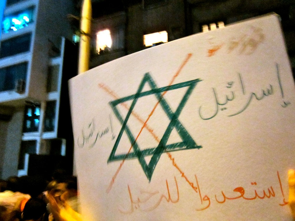 Down with Israel